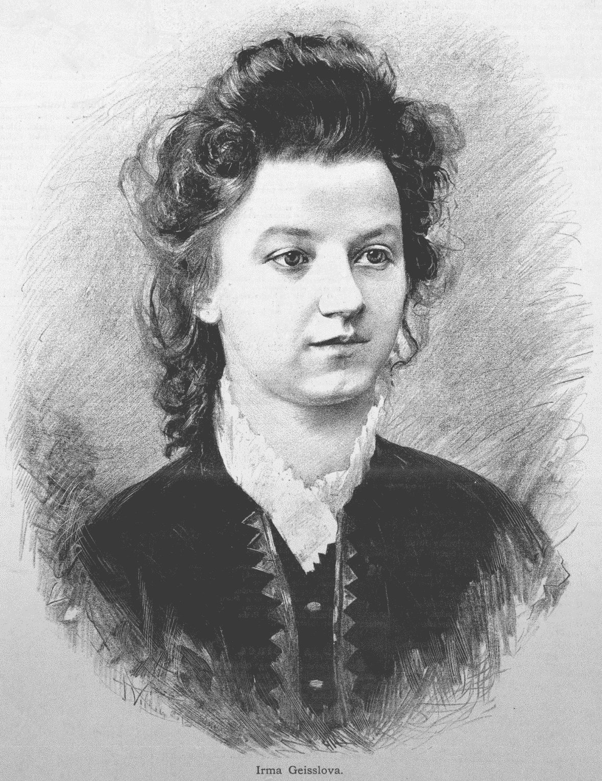 Portrait of Irma Geisslová, Czech writer.